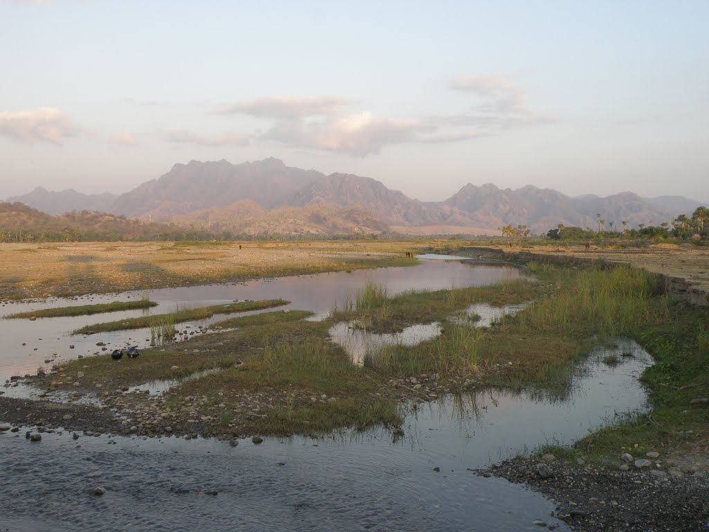 Tono River view to steep inland hills, Oecusse